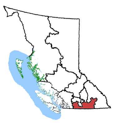 Map of the British Columbia Southern Interior electoral district. Based on Earl Andrew's maps, created by SimonP.